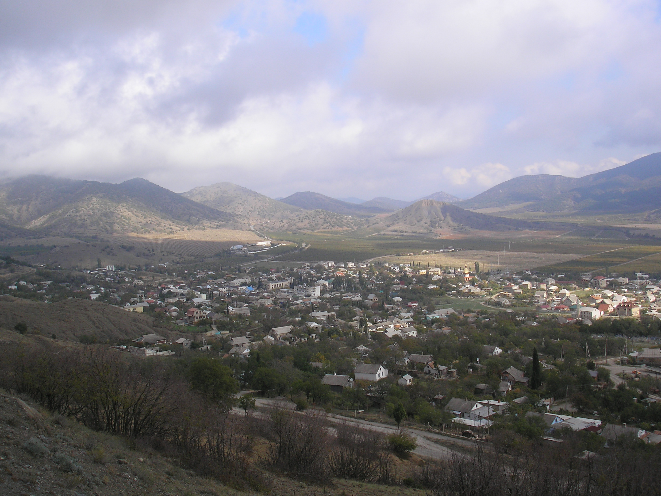 Village Vesyoloe, Urban District Sudak Republic of Crimea.